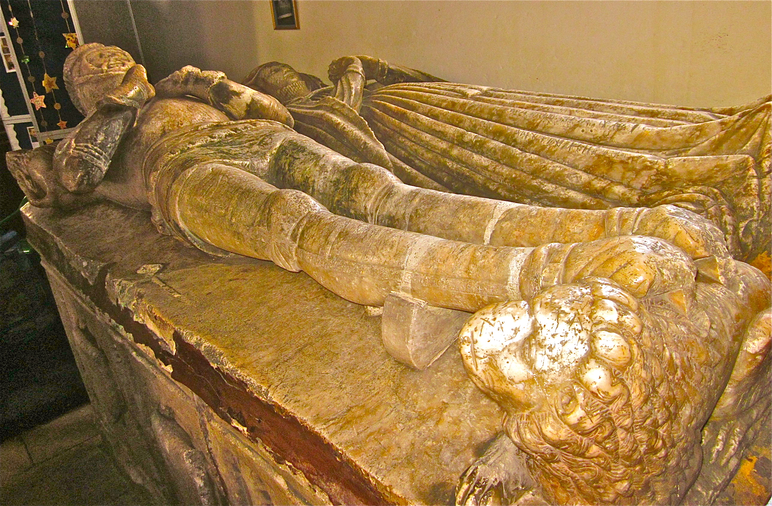 Tomb of Sir Thomas Grantham died 1618, now in St Mary le Wigford, Lincoln